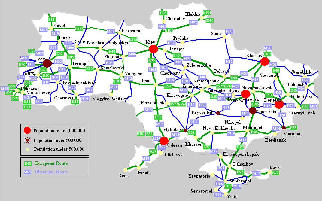 Updated version of this map, made to show isolated Ukraine and English city names.